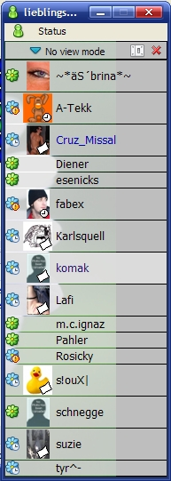 Miranda IM V. 4.3.48 Nightly Build